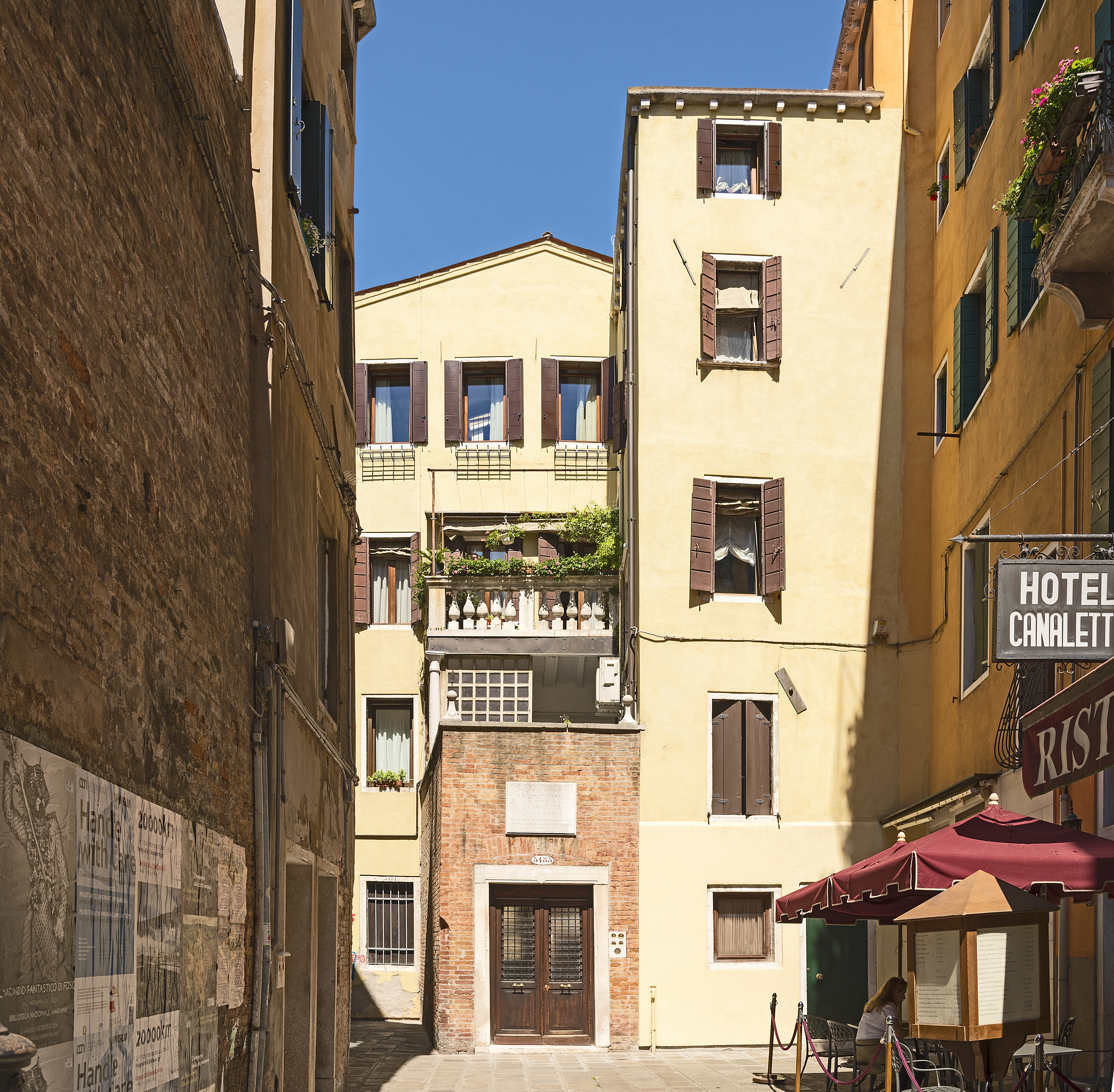 Birth House of Giovanni Antonio Canal, il Canaletto - Castello - Venice